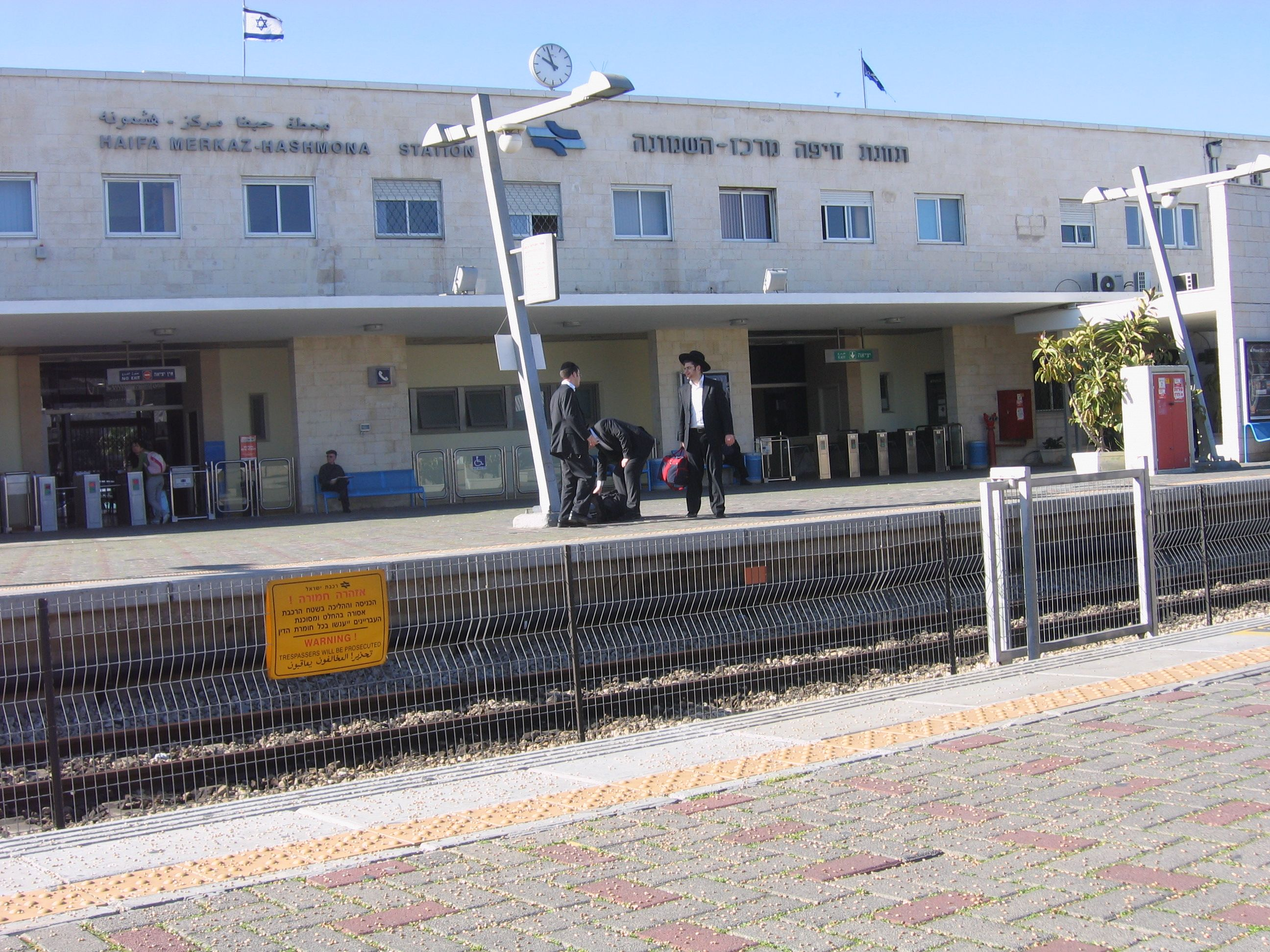 Main Rly Station, Haifa